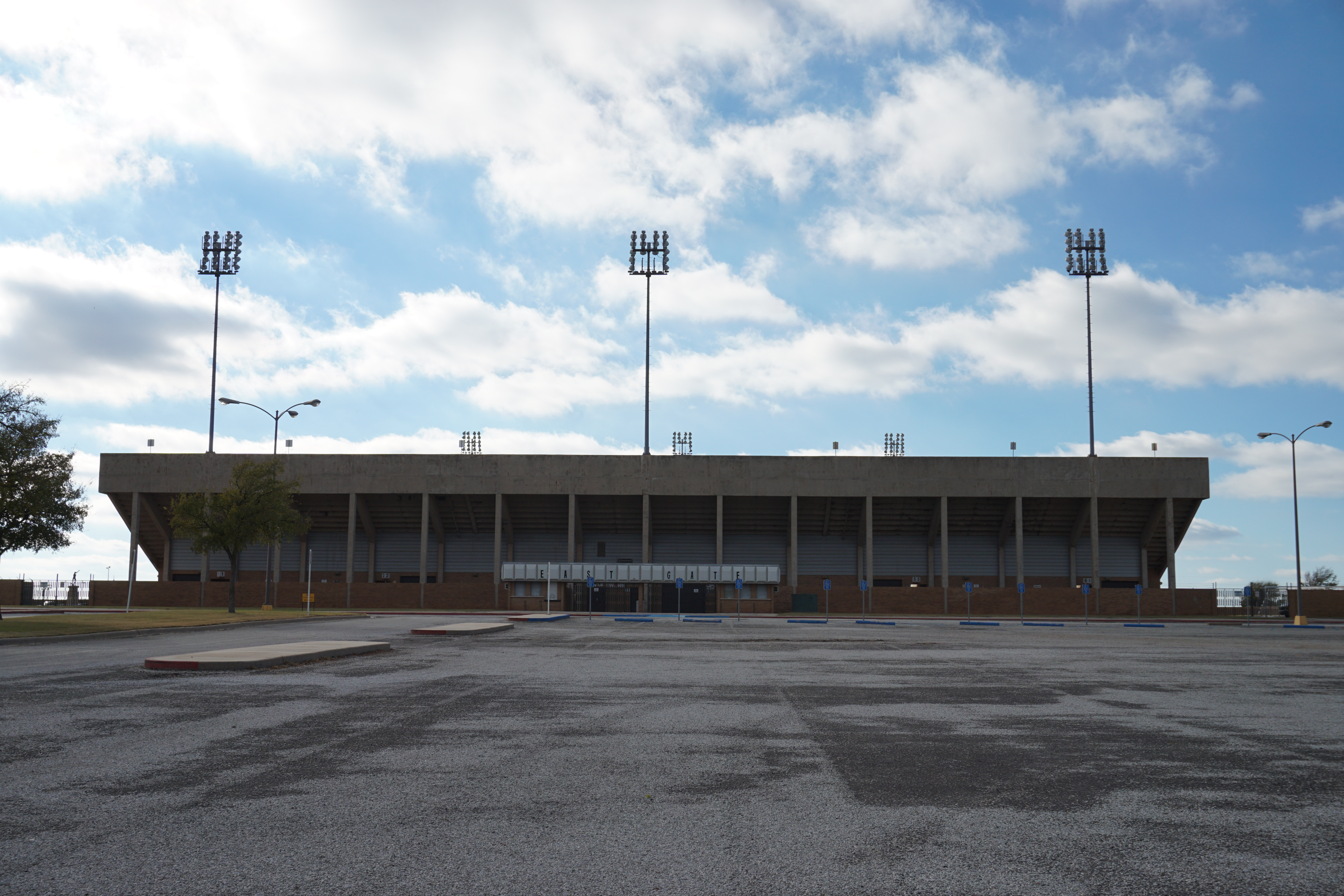 Memorial Stadium in Wichita Falls, Texas (United States).